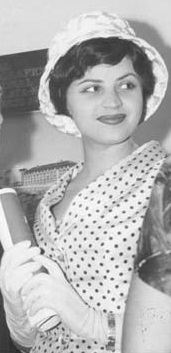 Mónica Lamas- modelo y actriz argentina